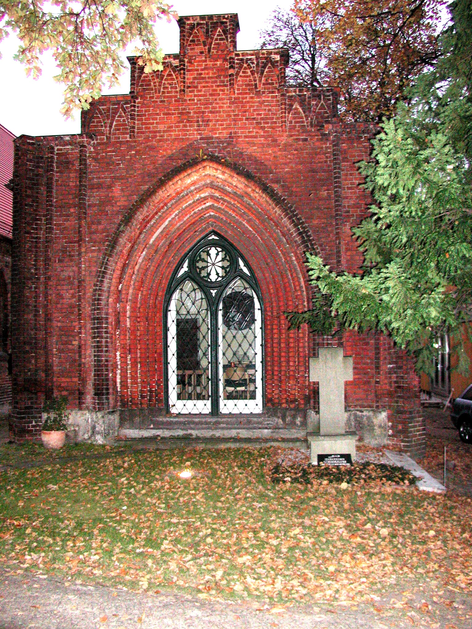 Village church Weissensee, Berlin-Weissensee, Germany